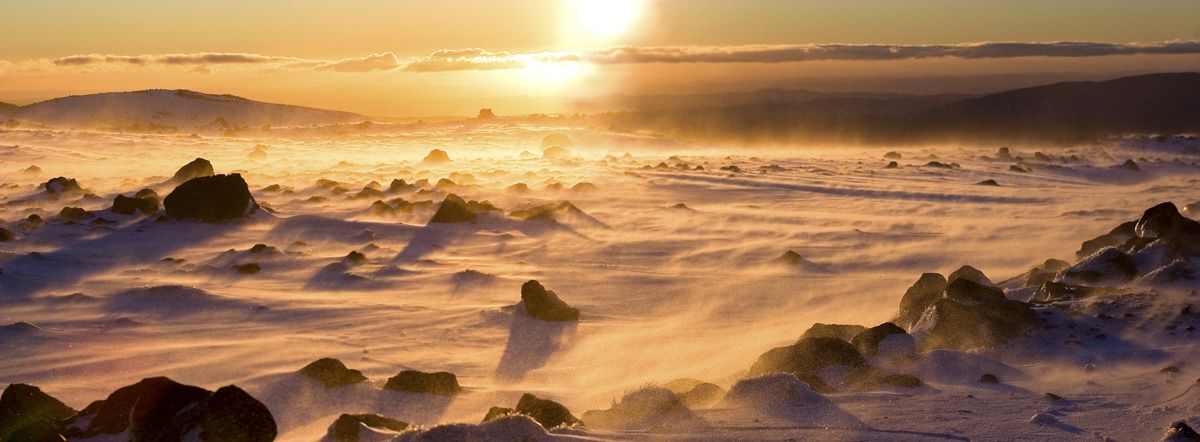 Ruapehu Mt., Whakapapa ski base area